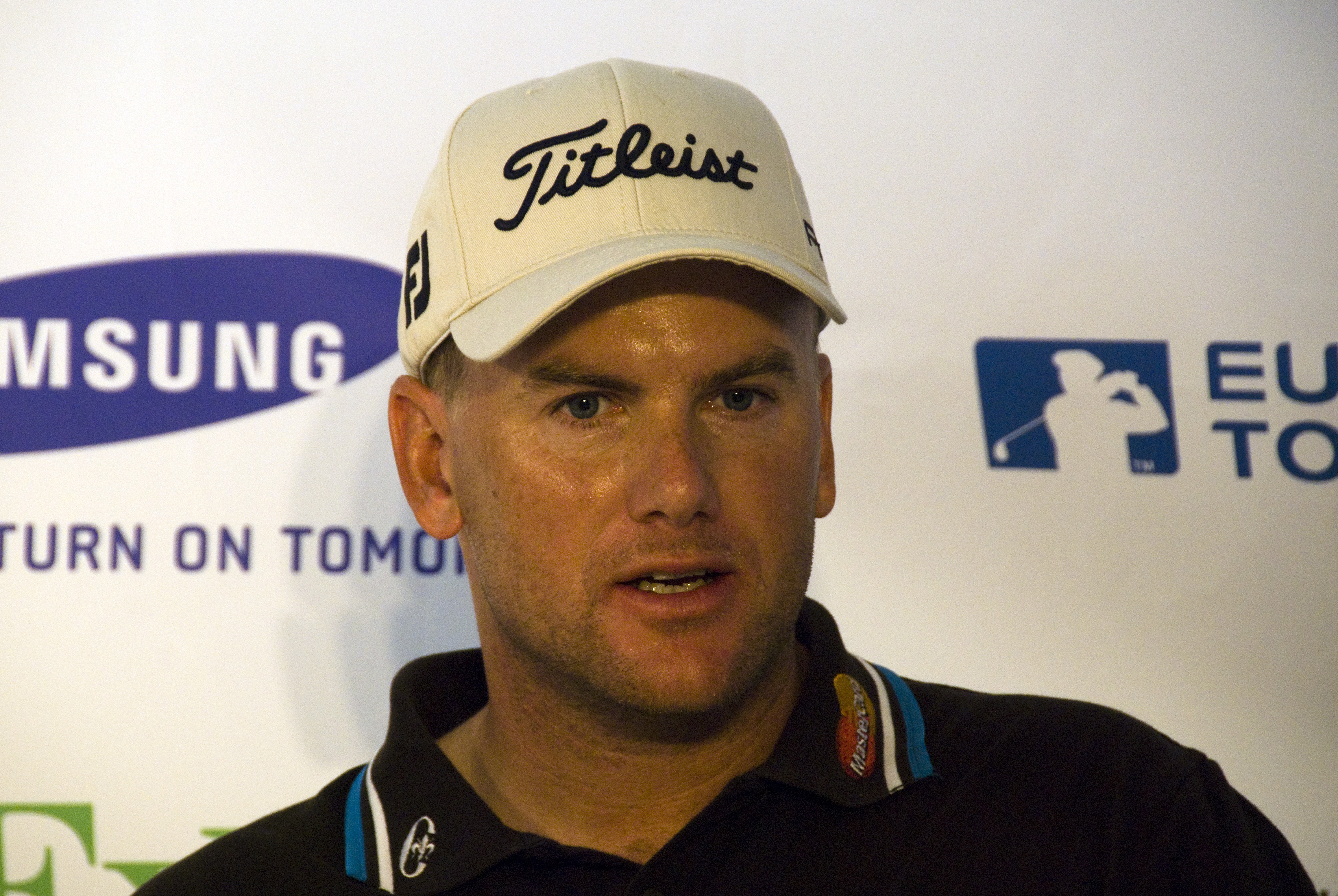 Robert Karlsson at Nordea Scandinavian Masters 2010 press conference